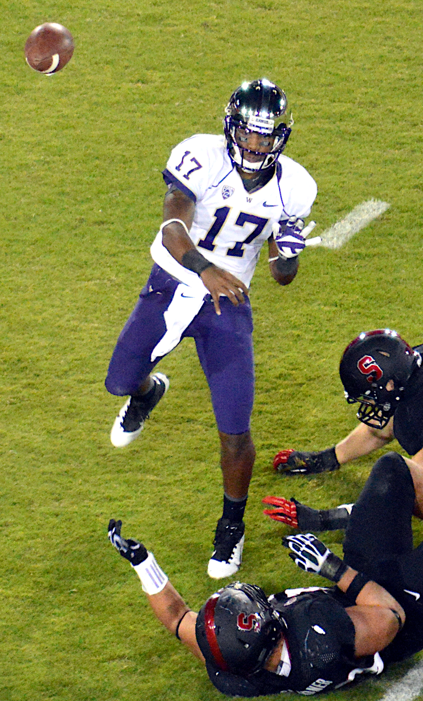 Stanford vs. Washington football, 2013